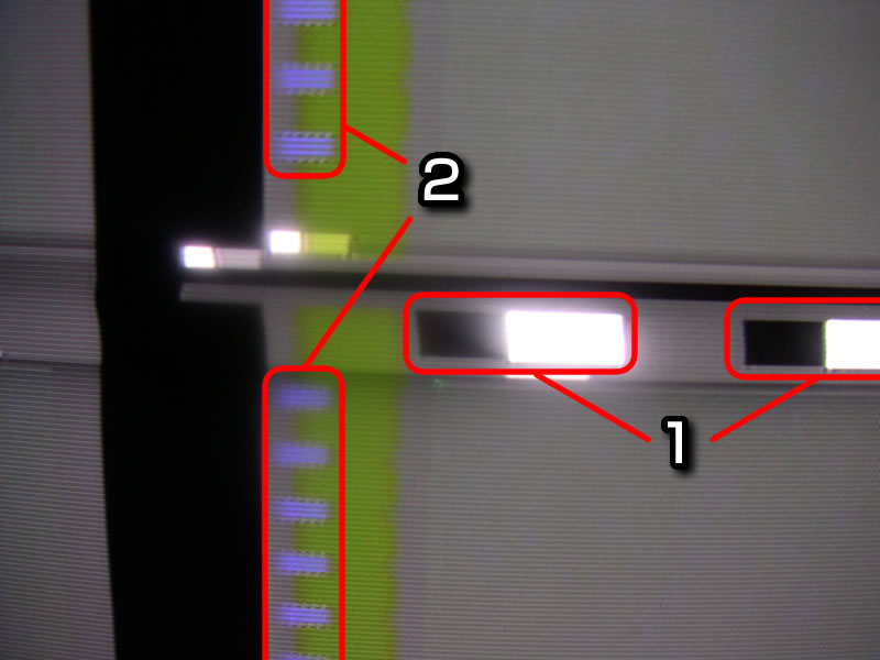 Macrovision Copyguard in Picture Monitor, 1: Macrovision, 2: Color Stripe